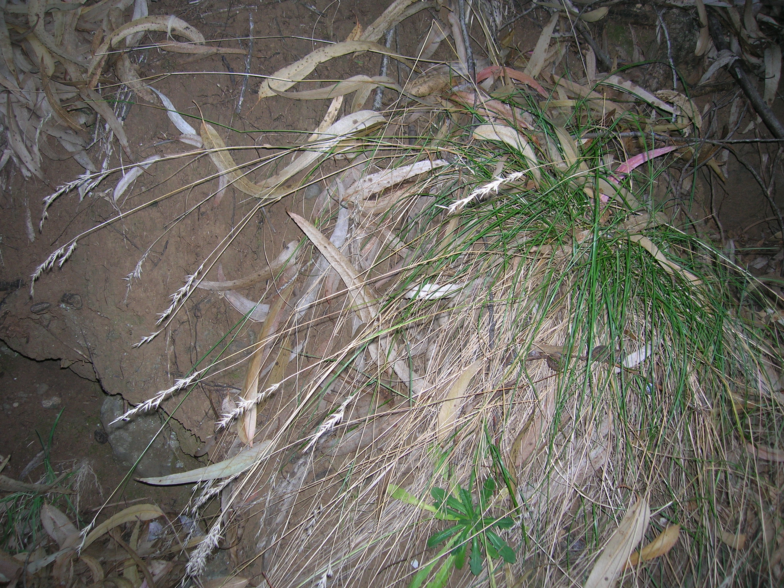 Rytidosperma semiannulare (habit). Location: Maui, Polipoli